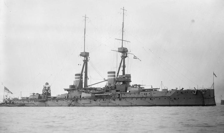 Physical Training H. M. S. Temeraire.